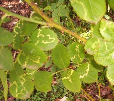 Authors own specimen